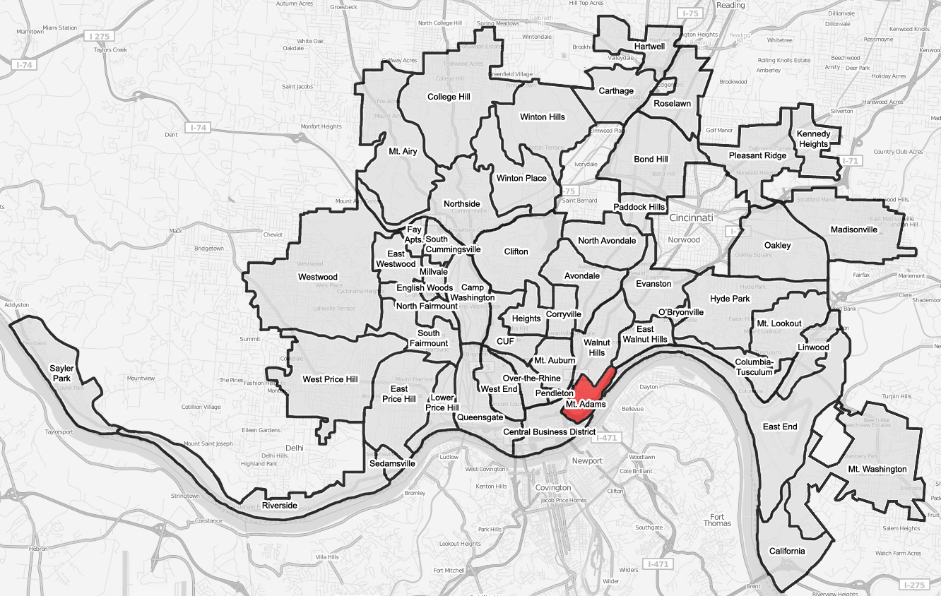 A map of the neighborhood of Mount Adams within Cincinnati, Ohio. Neighborhood lines are based on information from This street map is derived from a free map.